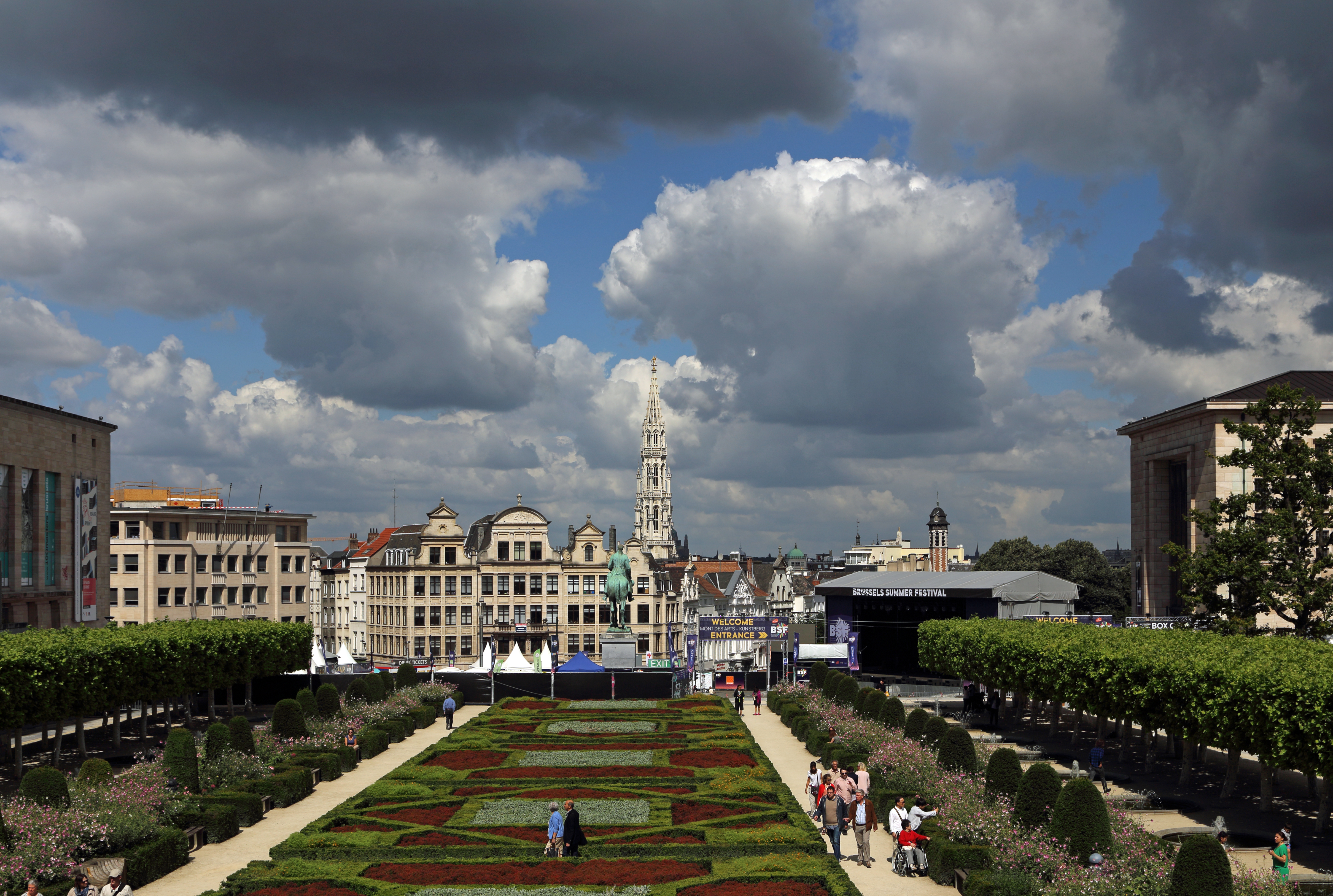 Brussels (Belgium): panoramic view from the Kunstberg/Mont des Arts